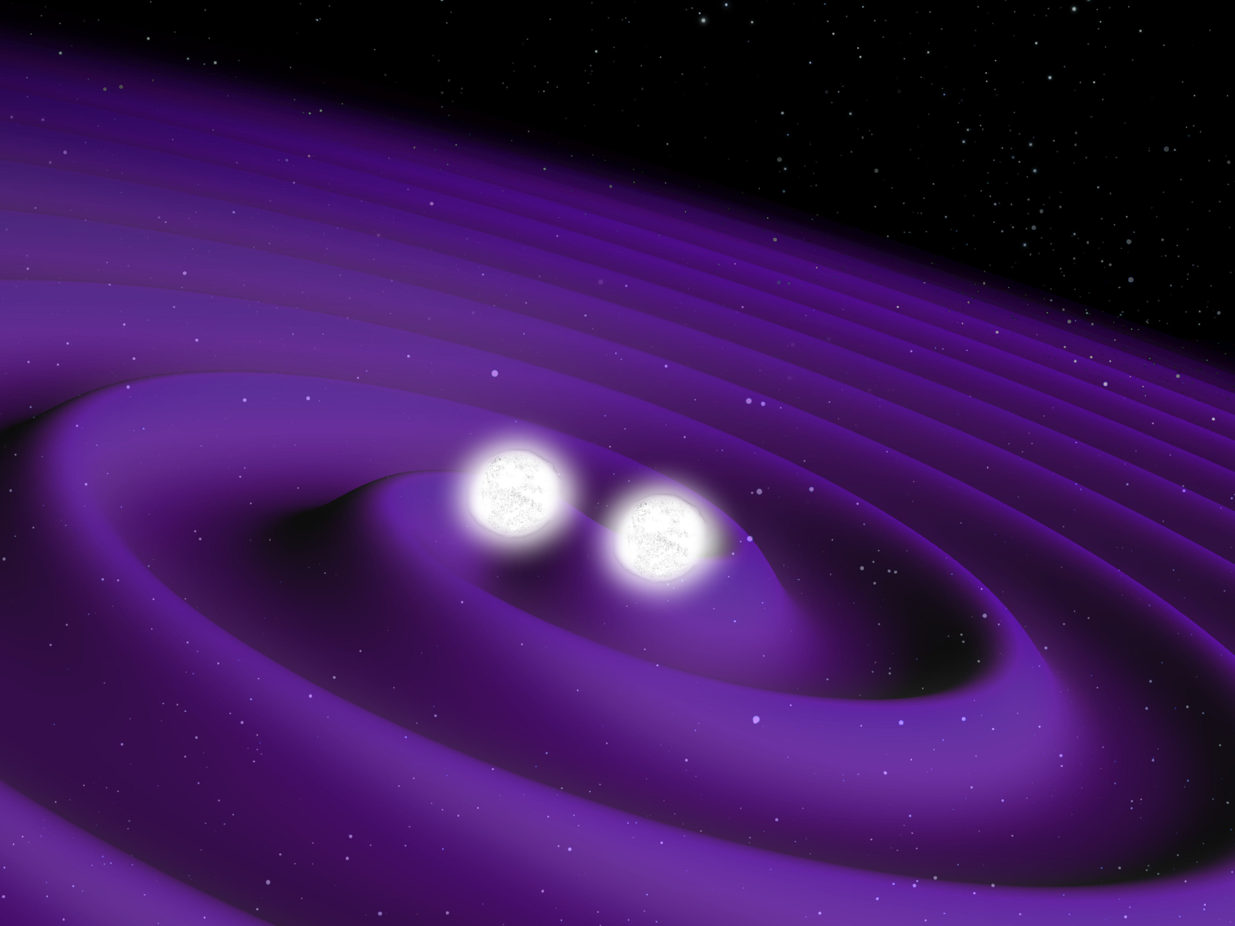 Artist’s impression of two neutron stars – the compact remnants of what were once massive stars – spiralling towards each other just before merging. The collision of these dense, compact objects produced gravitational waves – fluctuations in the fabric of spacetime – that were detected by the LIGO/Virgo collaboration on 17 August 2017. A couple of seconds after that, ESA's Integral and NASA’s Fermi satellites detected a burst of gamma rays, the luminous counterpart to the gravitational waves emitted by the cosmic clash. This is the first discovery of gravitational waves and light coming from the same source. Full story:Integral sees blast travelling with gravitational waves